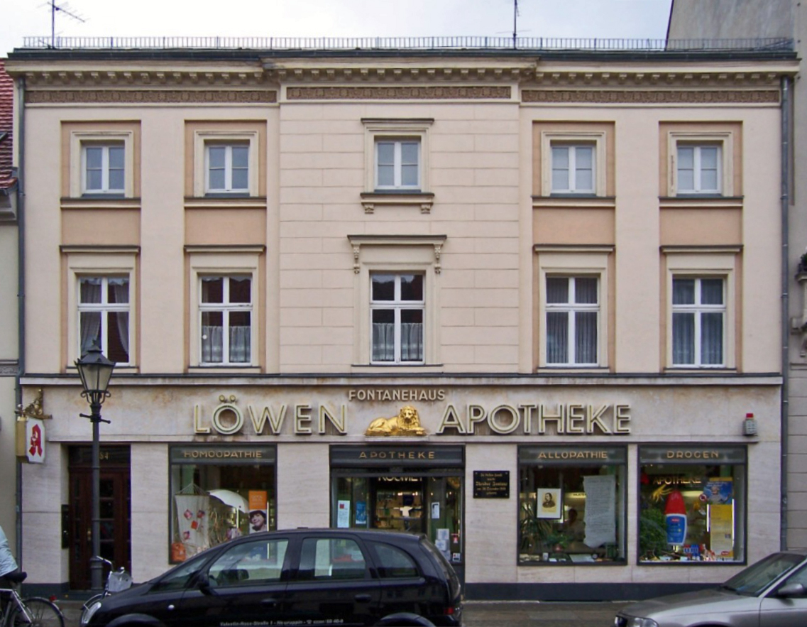 Fontanehaus in Neuruppin, Germany, where Theodor Fontane was born